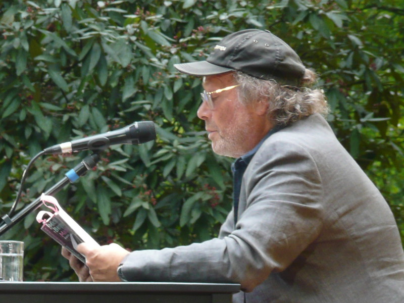 german writer Michel Bergmann reads at the Erlanger Poetenfest 2011